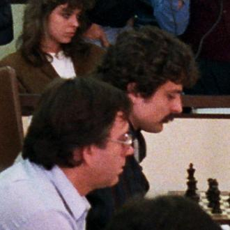 Smejkal, Ftacnik, Chess Olympiad 1988 in Thessaloniki, Photographer Gerhard Hund.